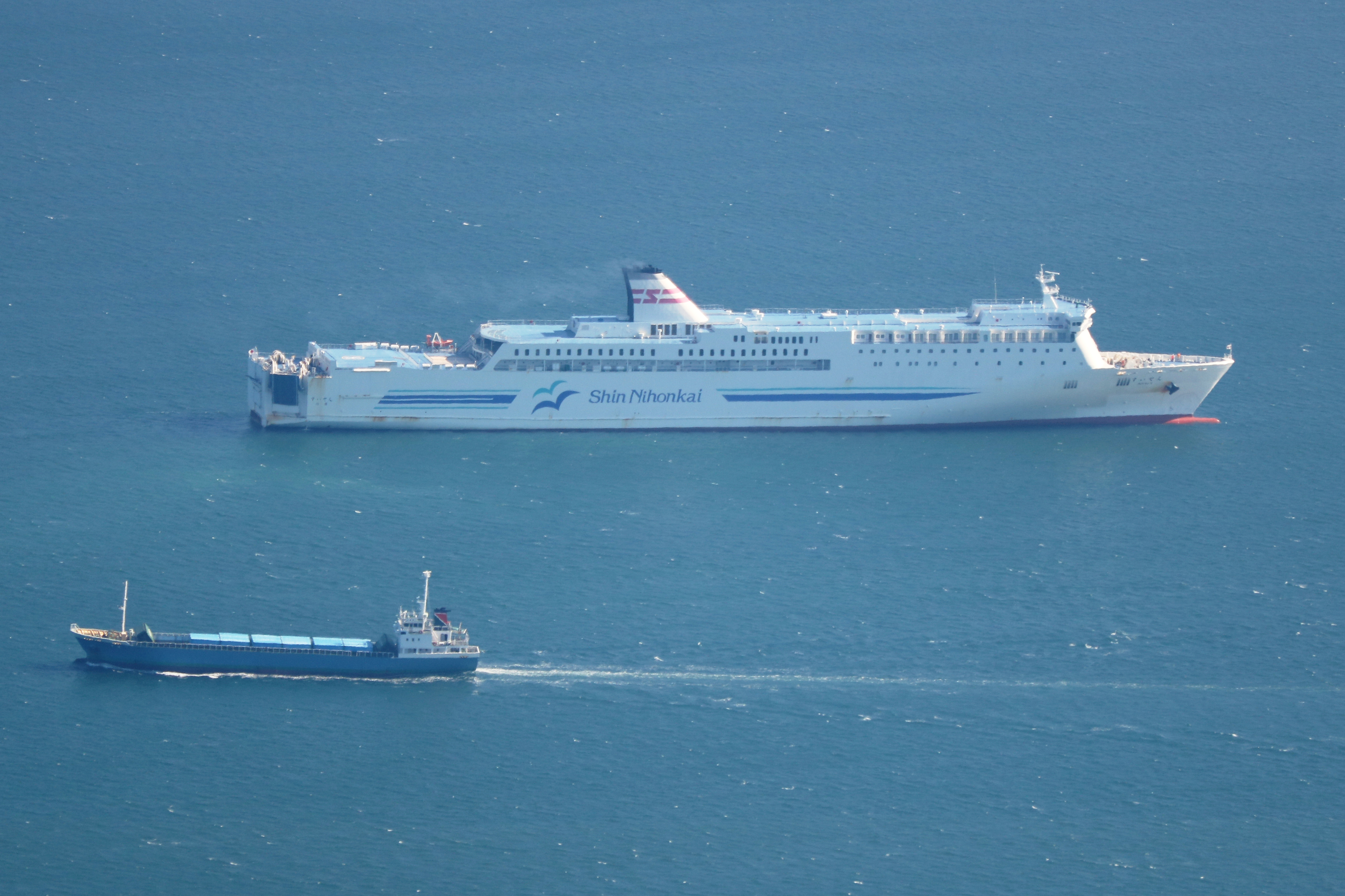 Suisen (ship, 2012) of Shinnihonkai Ferry sailing Tsuruga Bay seen from Mount Saiho in Fukui Prefecture, Japan.